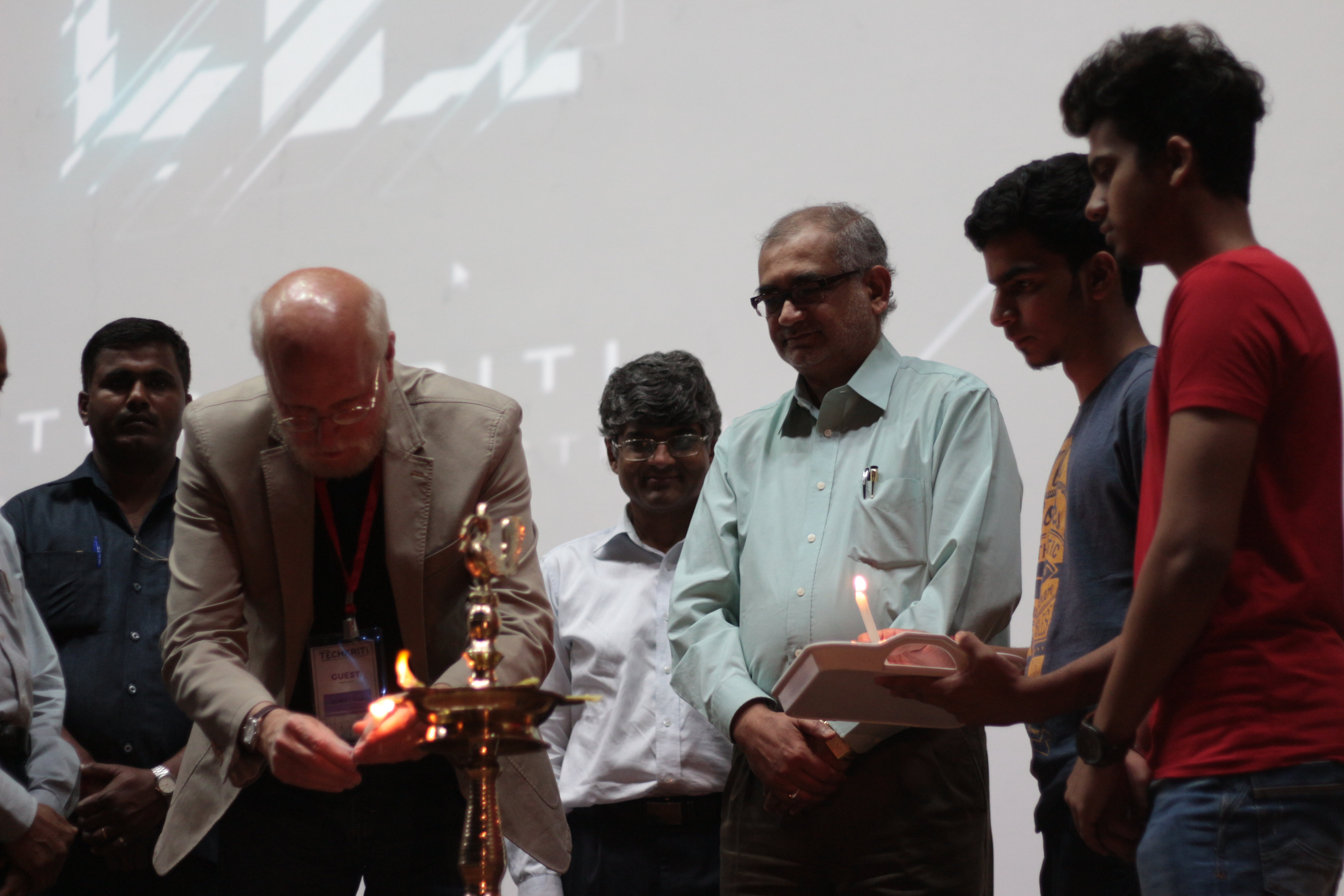 Techkriti celebrating it's 23rd edition witnessing prominent personalities.